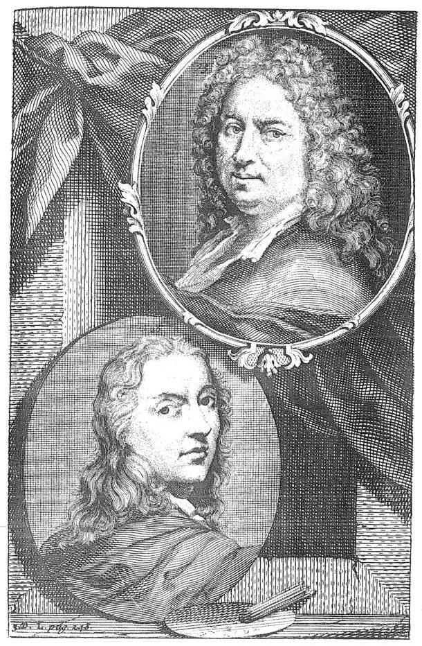 Plate L p248 25 Mathys Wulfraat, 26 Augustinus ter Westen. Illustration from Part 3 of Arnold Houbraken's Schouburg from 1721